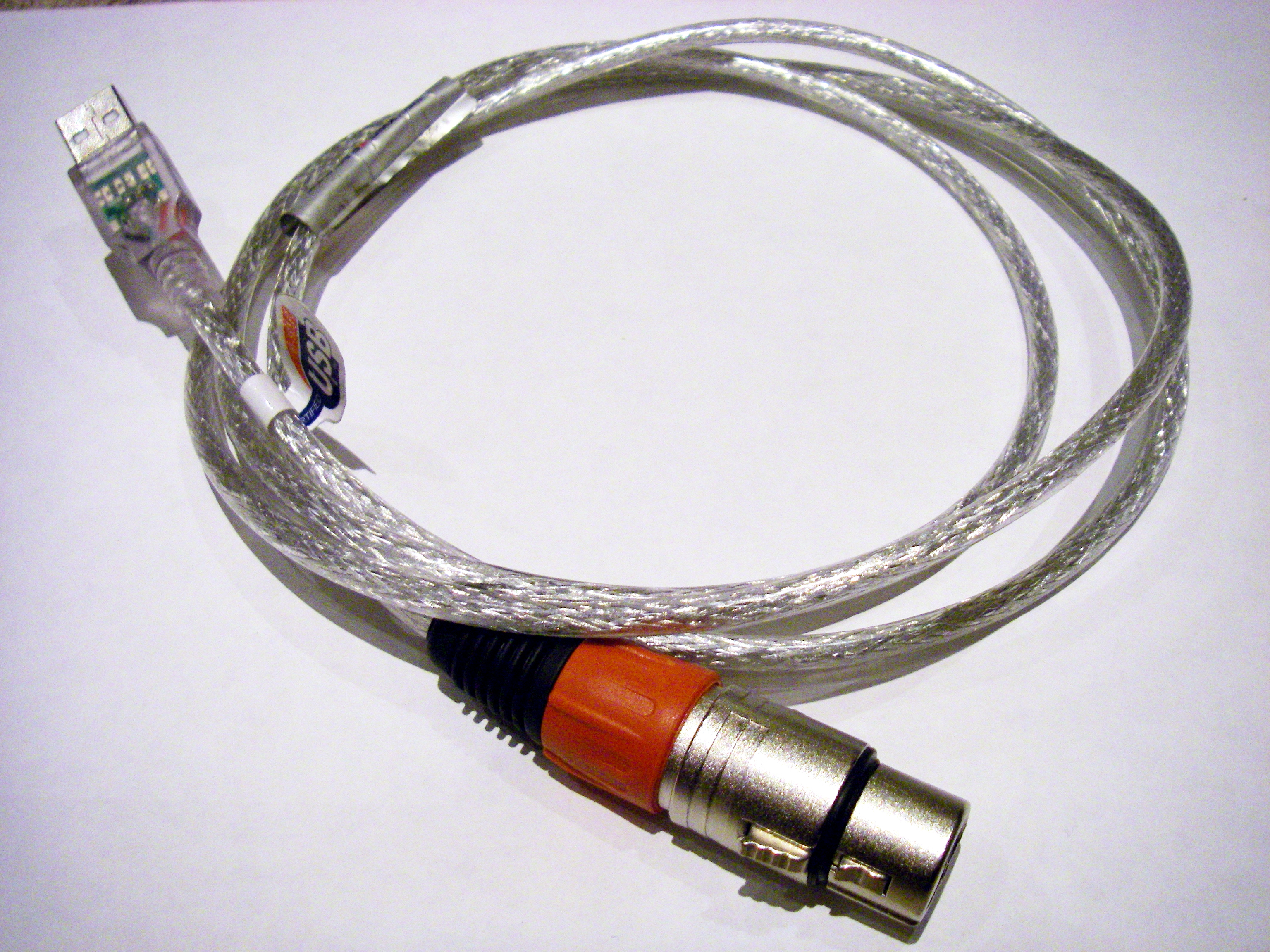 A JMS usb2dmx cable with integrated controller.